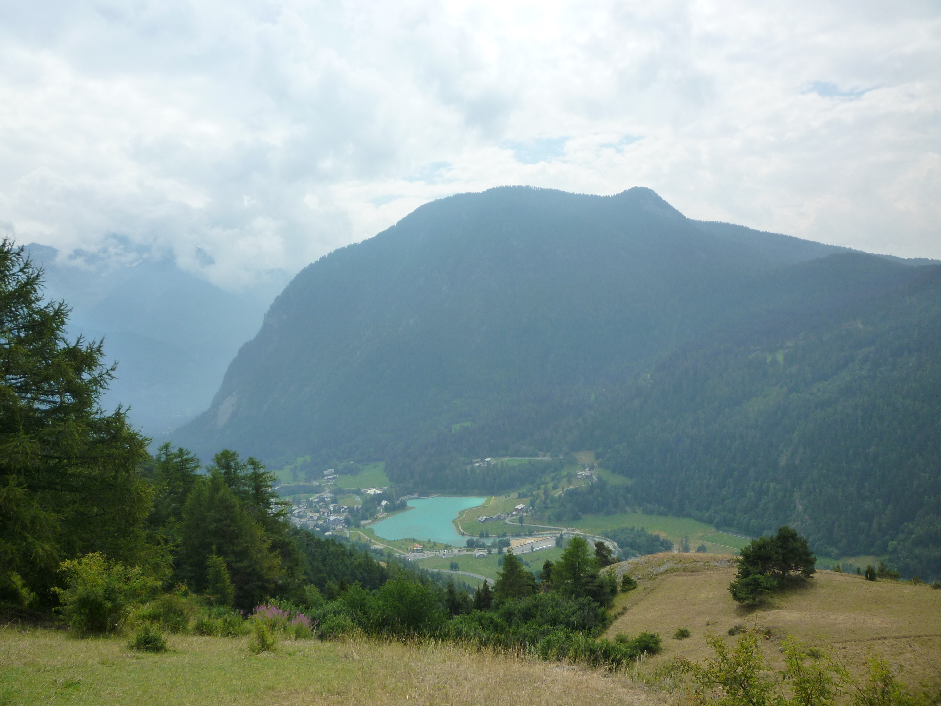 Overview of Brusson (Aosta Valley, Italy)